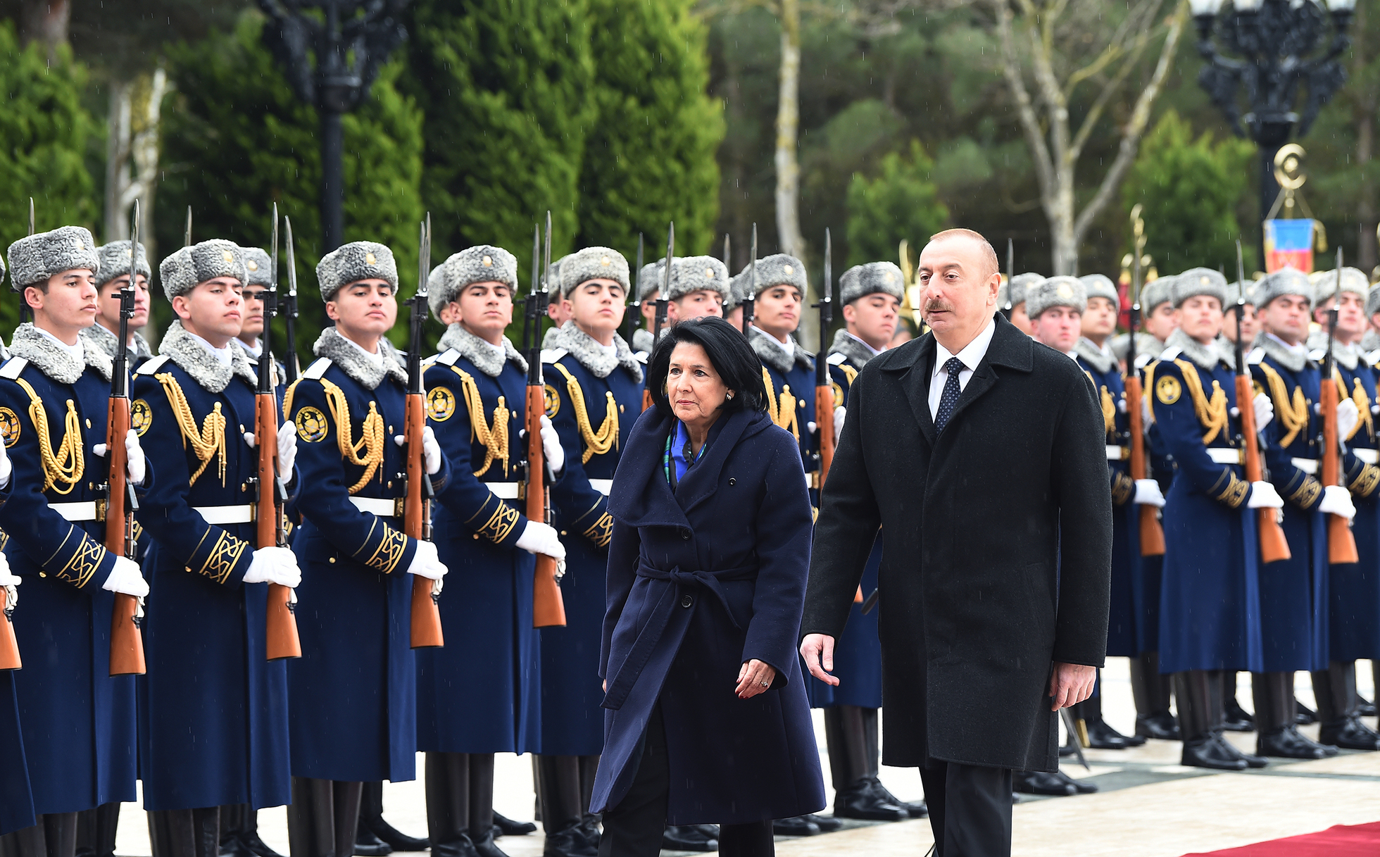 Official meeting ceremony of President of Georgia Salome Zourabichvili was held